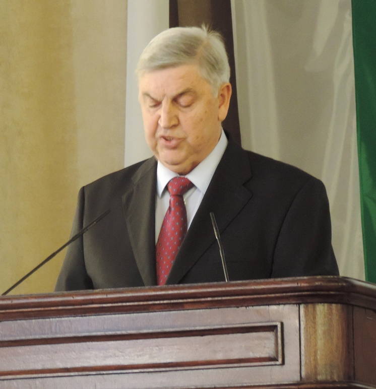 Bulgarian Academician Prof. Dr. Damian Damianov, during the Official meeting for the 70-th Anniversary of the Union of Scientists in Bulgaria, 31.10.2014